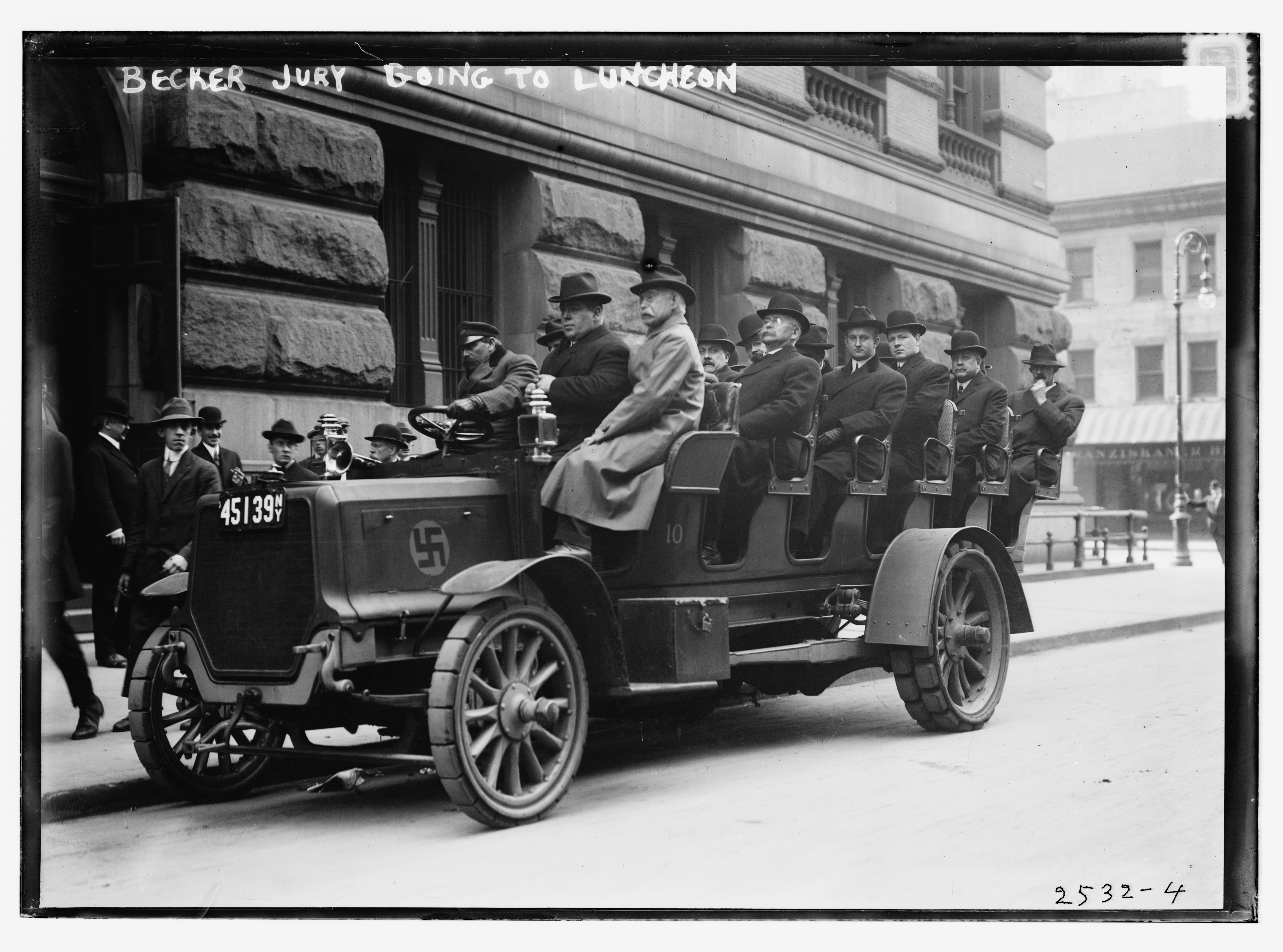 Becker jury going to luncheon (the jury in the Becker-Rosenthal murder trial in a Green Car Sight Seeing Company vehicle, driving past the Manhattan Criminal Courts Building, New York City)